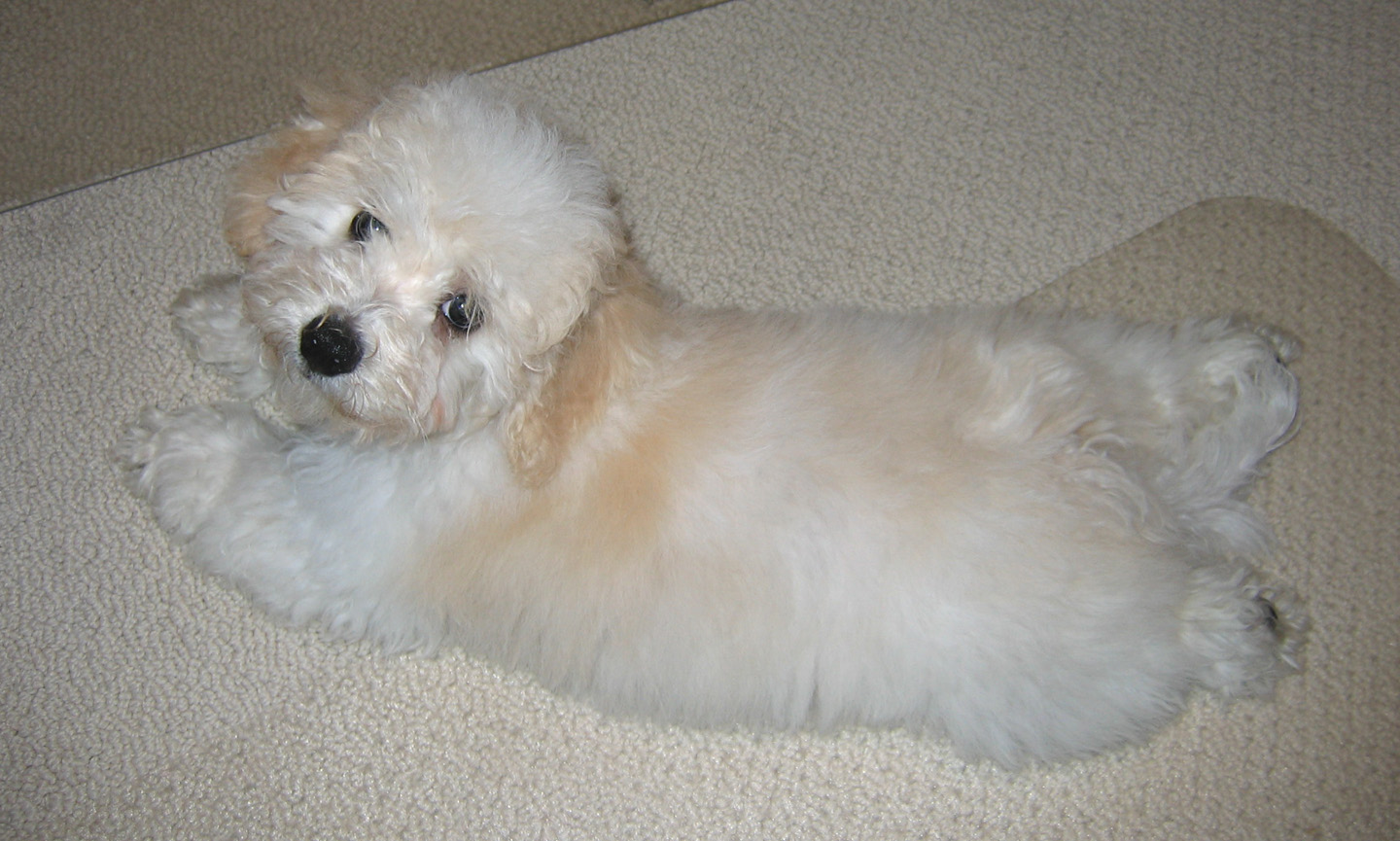 Joey's first night at home